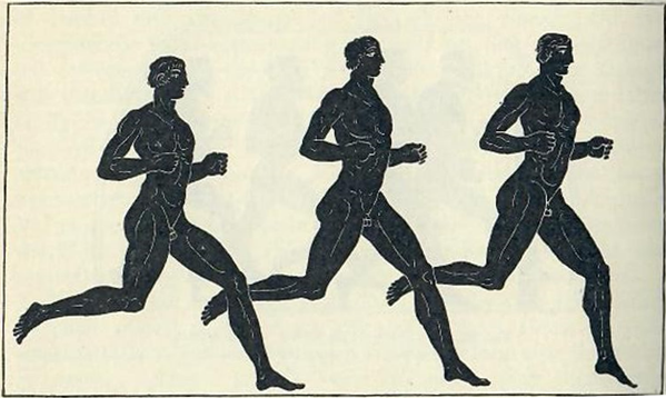 A scene from a Panathenaic amphora depicting long distance runners. The original image which was scanned can be located in: Gardiner, E. Norman (1864-1930), Greek Athletic Sports and Festivals, London: MacMillan, 1910, p. 280, Fig. 51